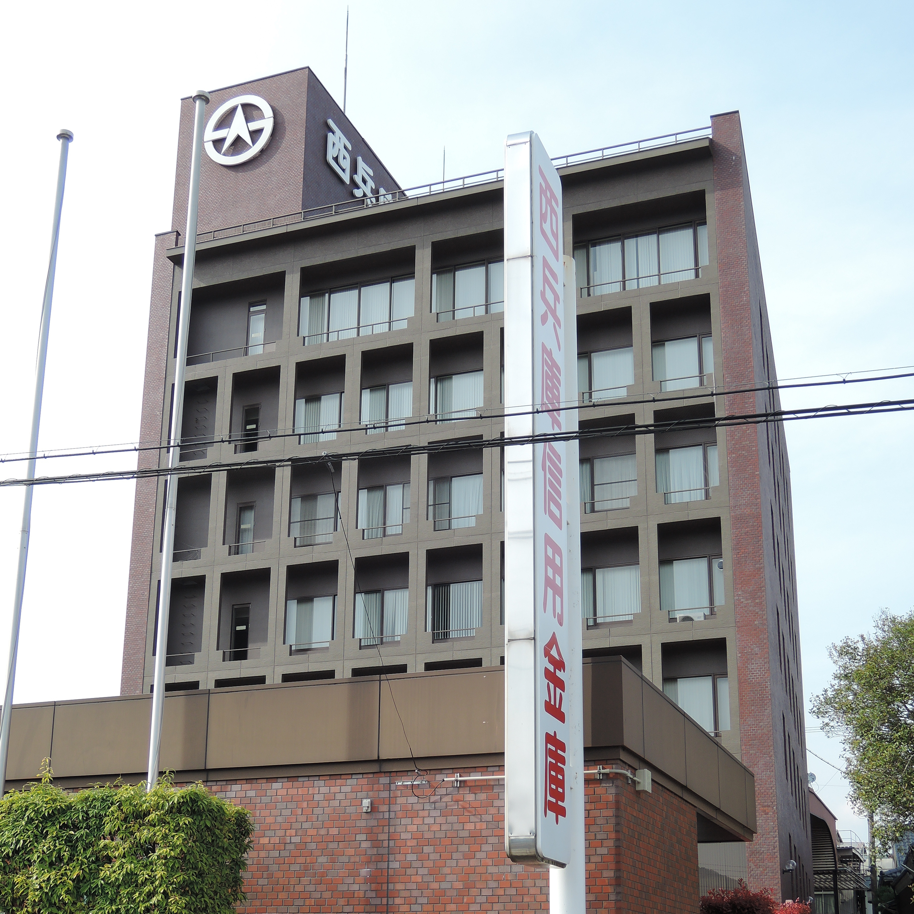 Head office of Nishihyogo Shinkin bank ,Hyogo prefecture,Japan